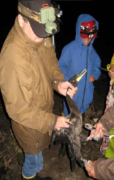 U.S. Fish and Wildlife Service Service staff work through the night on Spider Island banding cormorants. (Image Credit - USFWS)